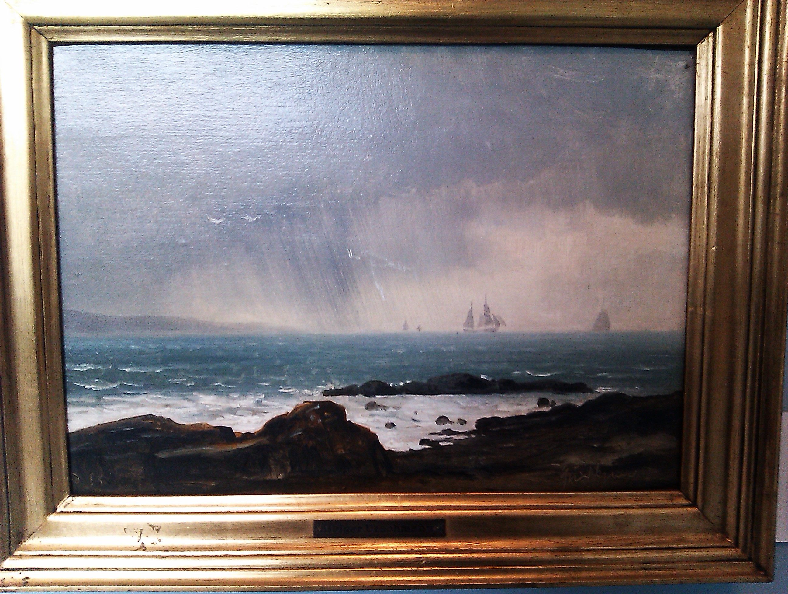 Holger Drachmann (1846–1908) Alternative names Holger Henrik Herholdt DrachmannDescriptionDanish journalist, poet, painter, playwright and writerpoet, writerDate of birth/death 9 October 1846 14 January 1908Location of birth/death Copenhagen Hornbæk, DenmarkWork location Skagen, CopenhagenAuthority control : Q966764 VIAF: 76335990 ISNI: 0000 0001 2140 0976 ULAN: 500135761 LCCN: n82052492 MusicBrainz: 70990617-e5b8-4929-a6e7-2de7a7f3f1dd WorldCat creator QS:P170,Q966764